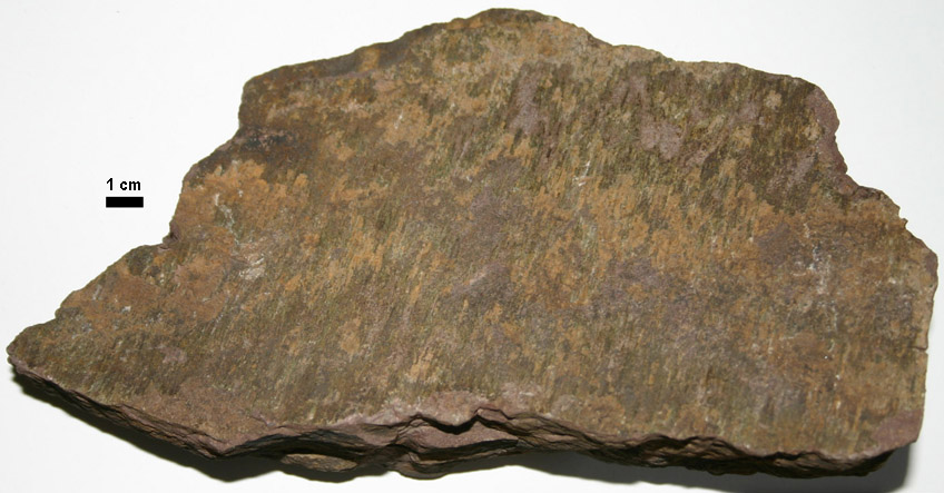 Slickensides on a sample of sandstone of the Juniata Formation, from an outcrop on Rt 322 northeast of State College, Pennsylvania